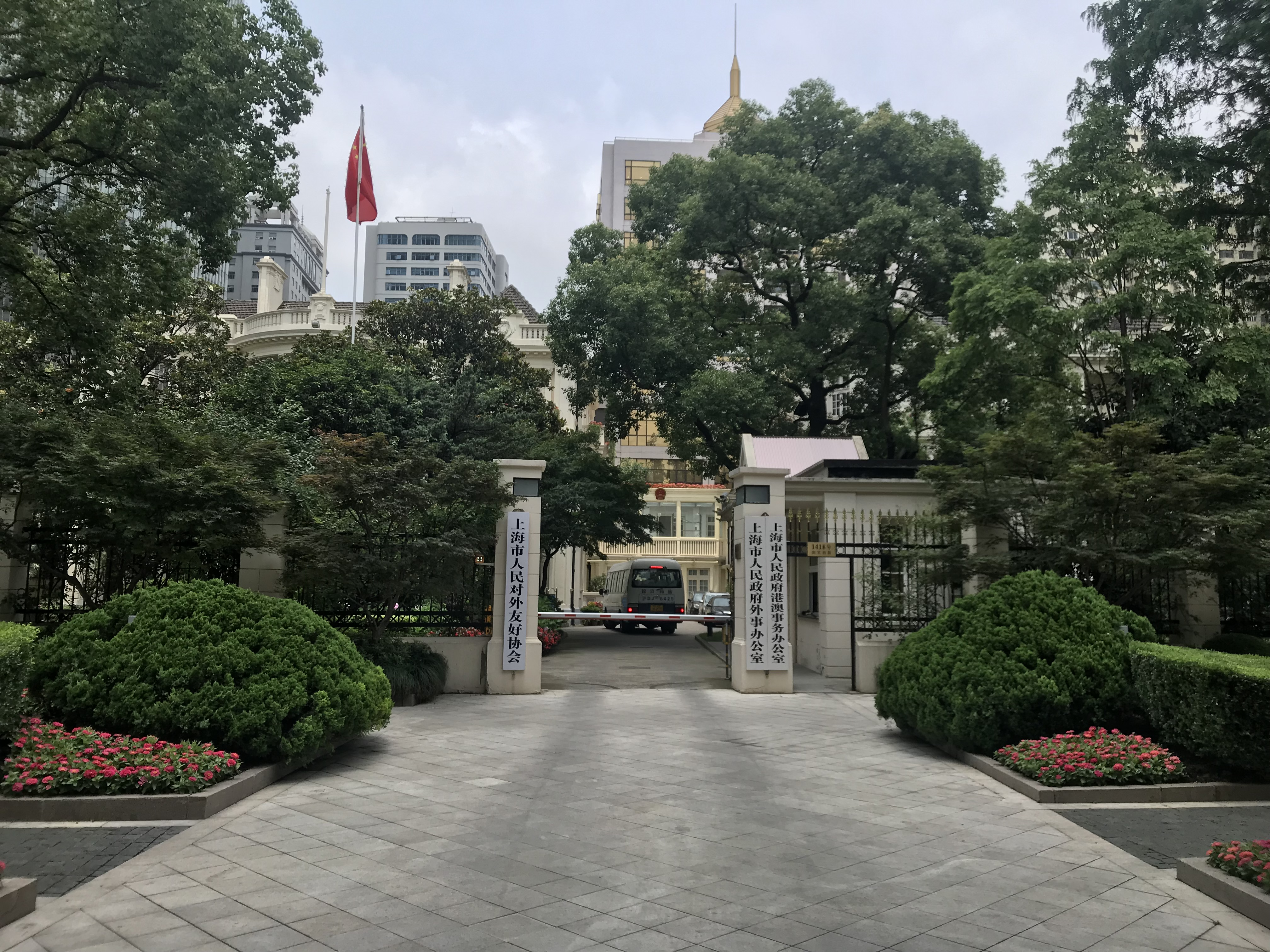 Beside the Portman Ritz-Carlton